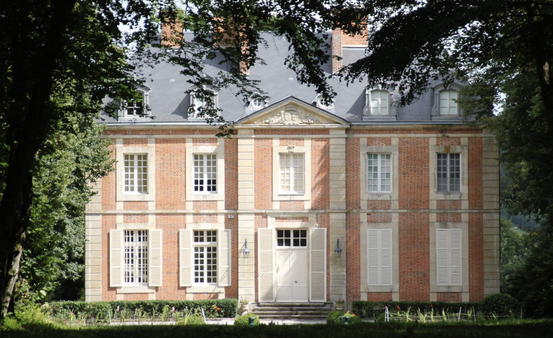 This beautiful picture represents the Castle de la Vente of Silly.